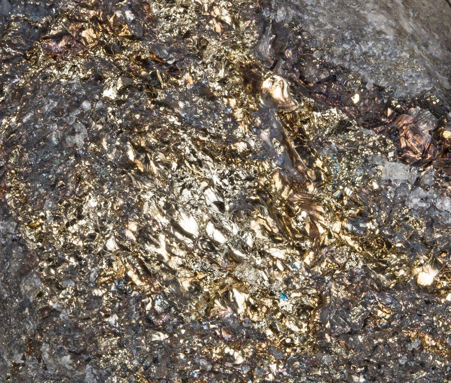 Coloradoite, Petzite Locality: Kalgoorlie-Boulder, Kalgoorlie-Boulder Shire, Western Australia, Australia Size: 7.8 cm x 5.8 cm x 4.5 cm A very rich specimen of exceptionally rare species from the classic deposit here. Emplaced wonderfully in a shallow vug is a thin surface of sparkling, metallic, drusy crystals (or cleavages, more likely) of coloradoite, a rare mercury telluride, whose crystals give off a slight iridescent reddish hue. Intermixed with the coloradoite are sparkling darker metallic crystal cleavages of petzite, a silver, gold telluride, whose crystals emit a visible golden-silver color. Richly crystallized, rare assemblage. Ex Larry Conklin collection and accompanied by his label. He told me it was a very, very rich specimen which he had kept for many years, although I confess I have never seen any other such 'pretty' pieces that caught my eye to compare this to in any meaningful way.